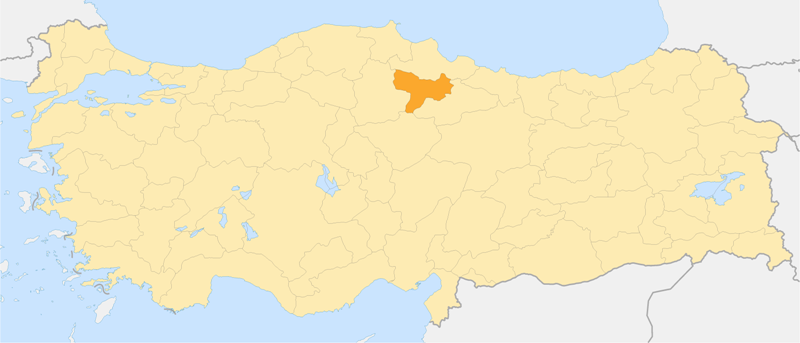 Shows the location of the province Amasya in Turkey